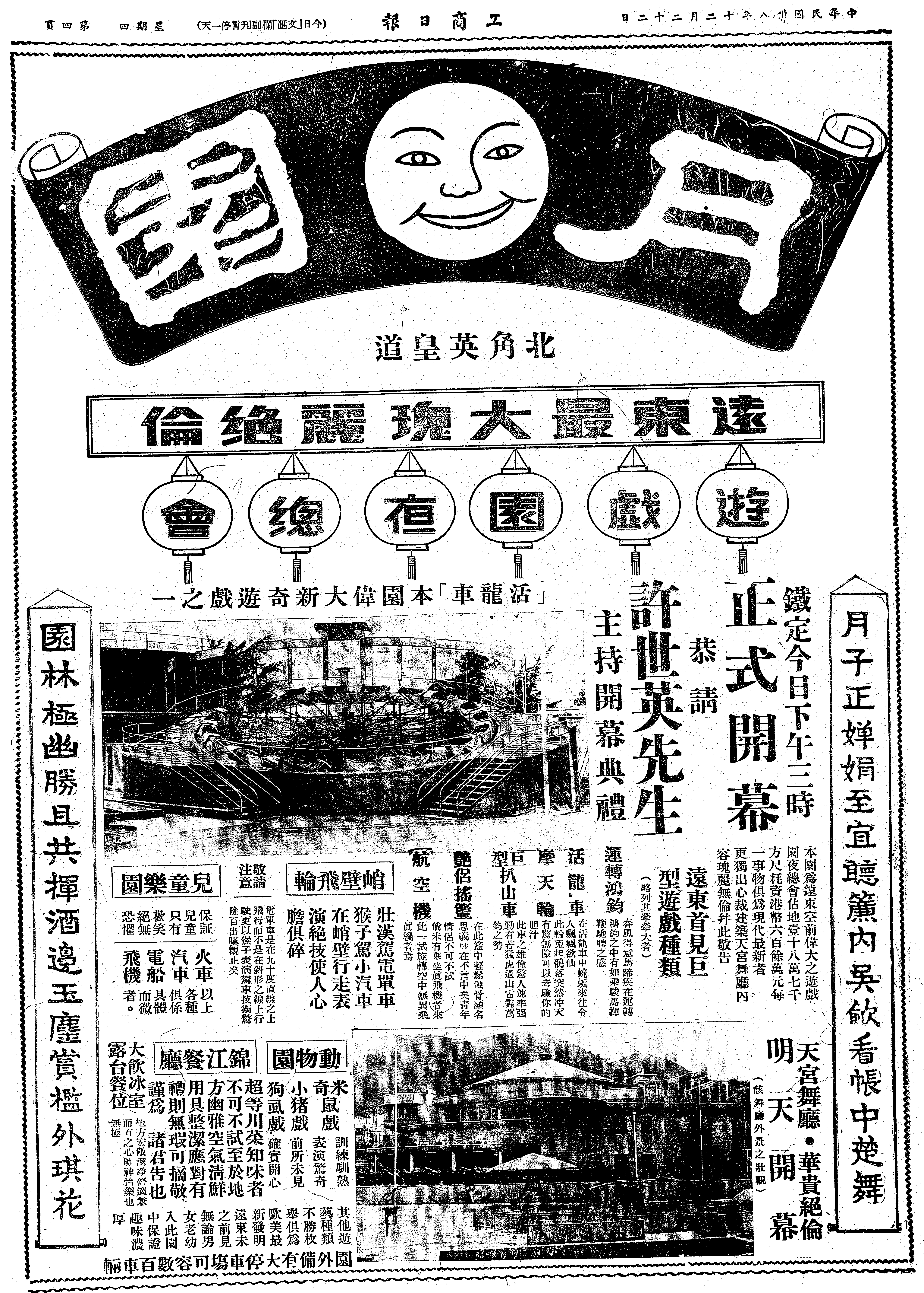 Luna Park Advertisement, 22-Dec-1949 中文（香港）: 1949年12月22日在香港《工商日報》刊登的「月園」廣告。